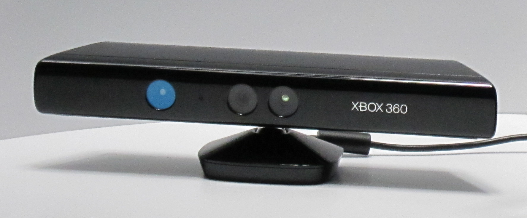 Kinect sensor as shown at the 2010 Electronic Entertainment Expo